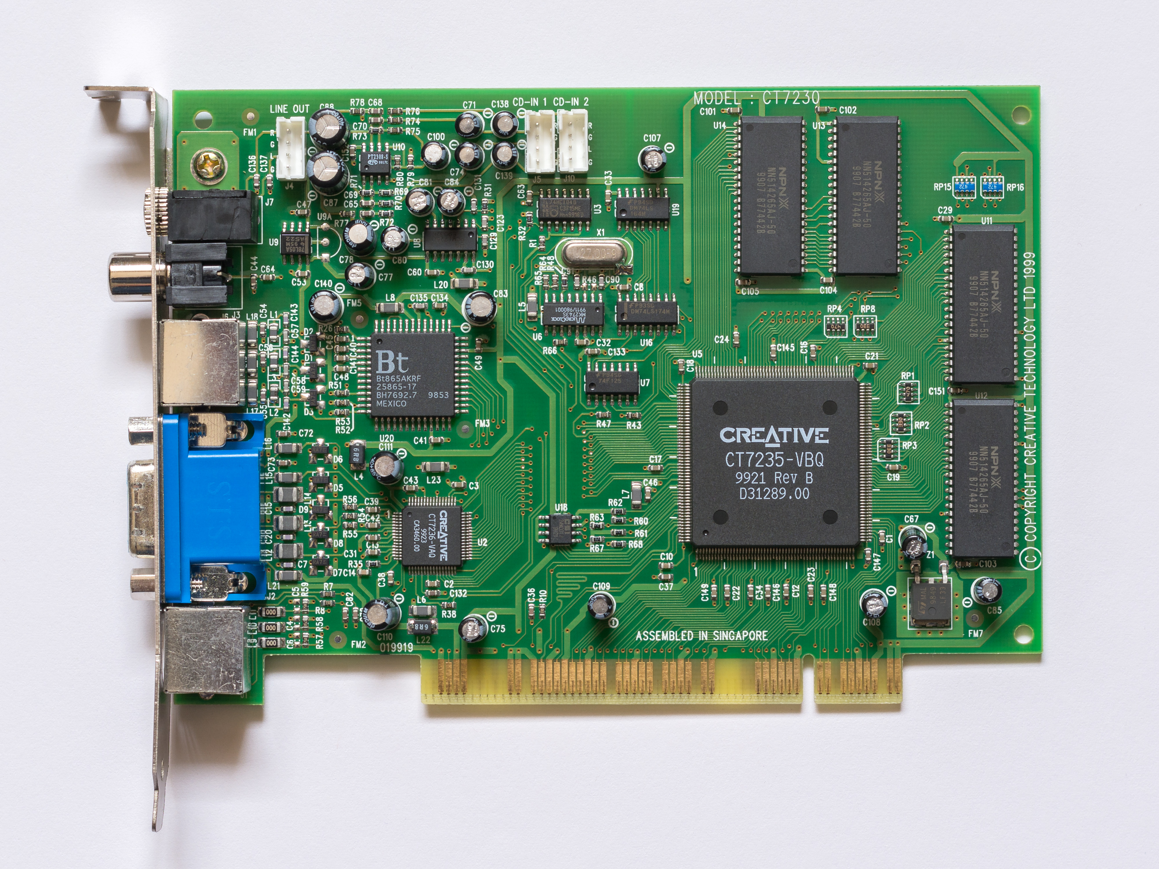 Creative Labs Dxr3 MPEG2 decoder card (technically identical to Sigma Designs RealMagic Hollywood Plus)